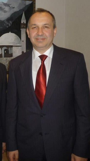 Nedžad Grabus